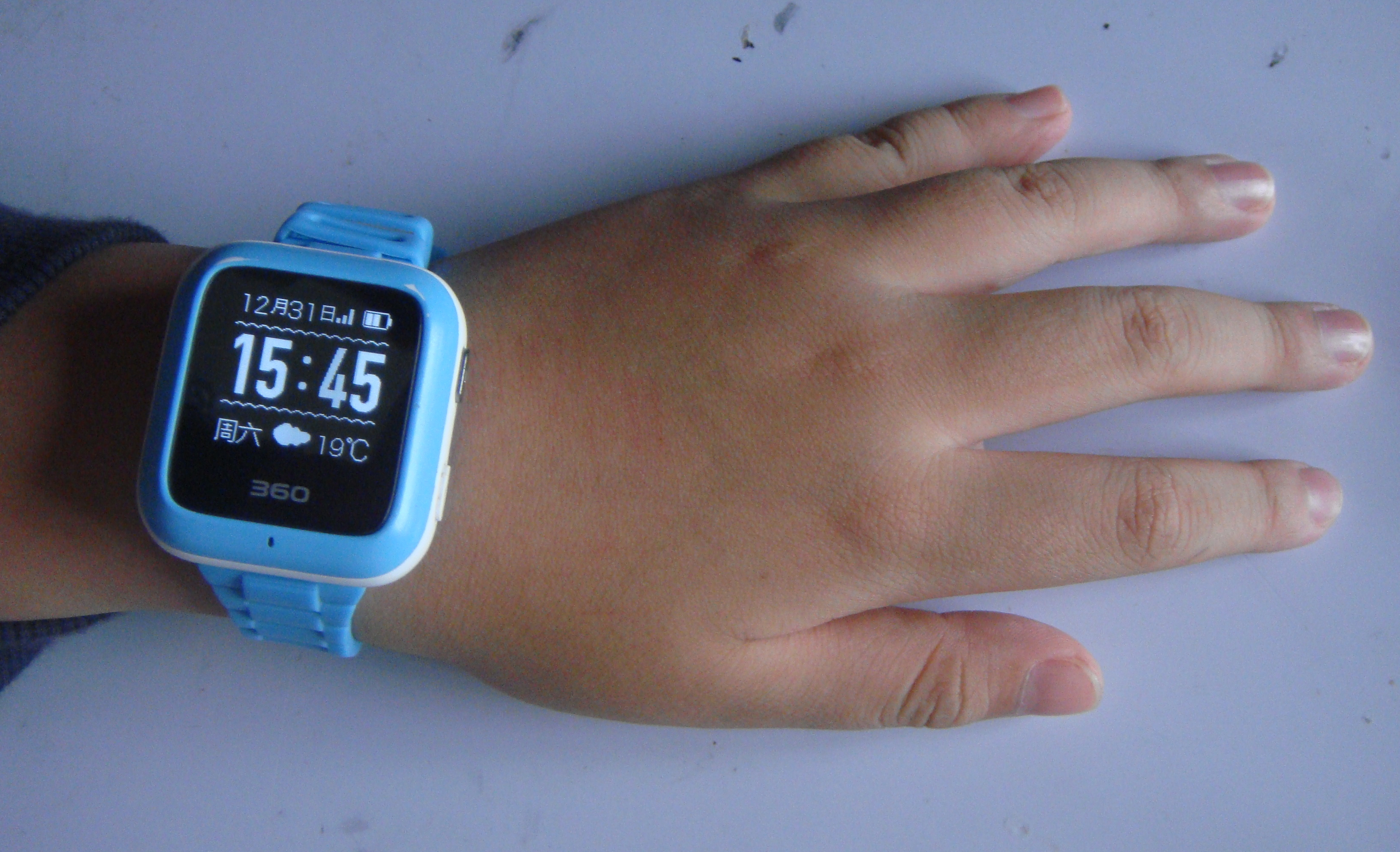 Child's phone watch (smartwatch) in China (boy).